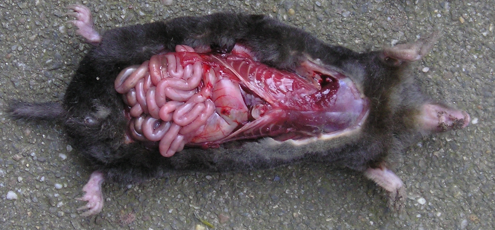 European mole, bowels (open).